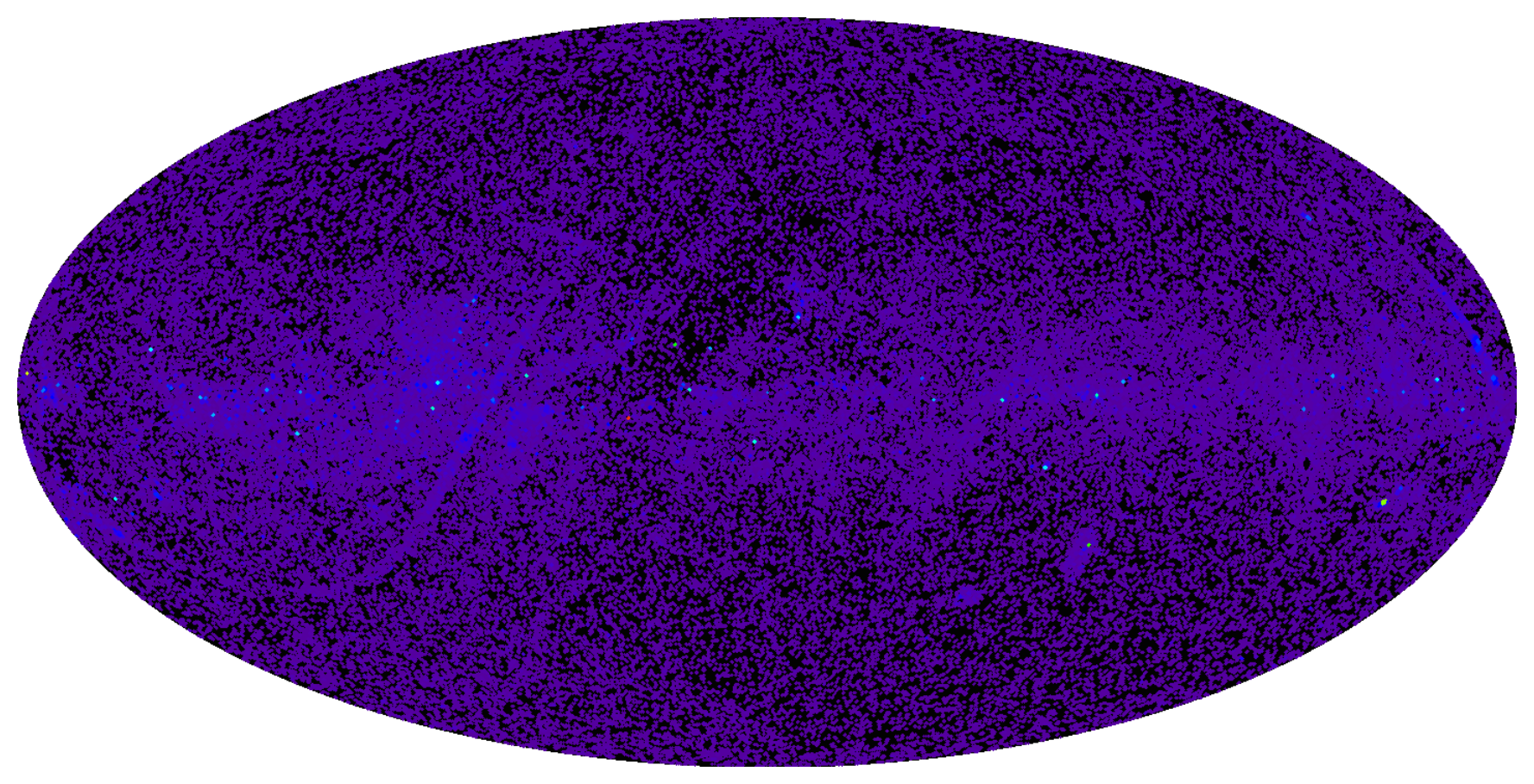 Positions of the objects int the Washington Double Star Catalog in the whole sky. The image is like a map of the density of objects (cluster diagram). The color index is like a rainbow: (a few objects per square degree) ⇔ violet ⇔ blue ⇔ green ⇔ yellow ⇔ orange ⇔ red ⇔ (a lot of objects per square degree)